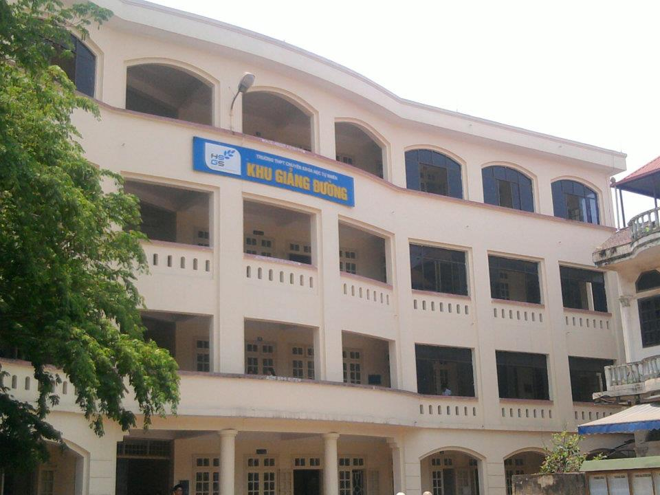 The Main Building of HUS High School for Gifted Students(in Vietnamese:Giảng đường Chuyên)